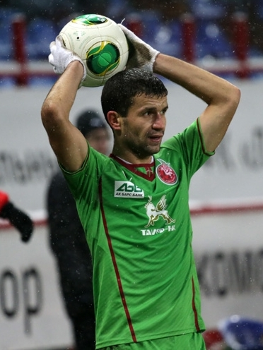 Syarhey Kislyak with FC Rubin Kazan.